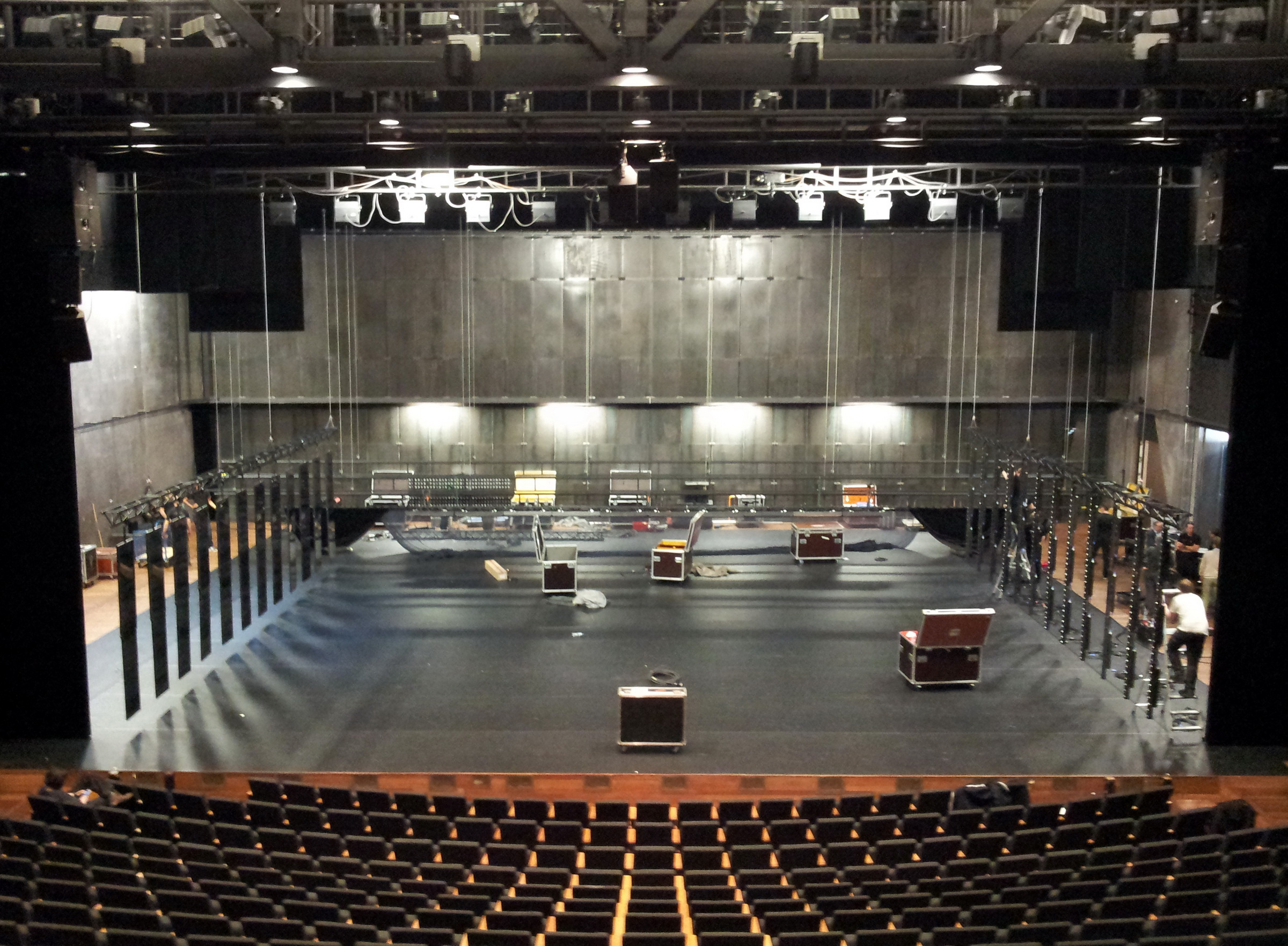 Amsterdam, the Netherlands. Interior of Rabo Zaal in the new extension of Stadsschouwburg, Amsterdam's municipal theatre on Leidseplein. The hall is used by Stadsschouwburg, Toneelgroep Amsterdam and Melkweg.